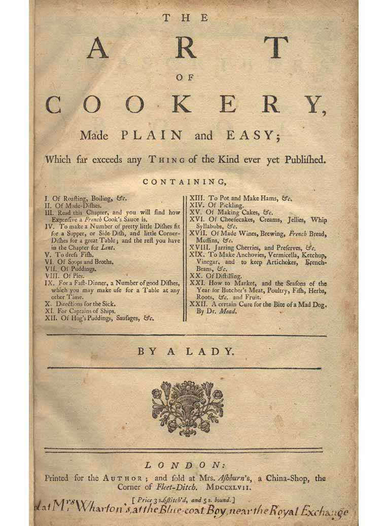 Titel page of Hannah Glasse's book Art of Cookery, first published in 1747